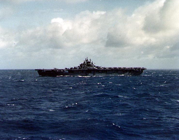 The U.S. Navy aircraft carrier USS Lexington (CV-16) photographed from the light carrier USS Cowpens (CVL-25) during raids in the Marshalls and Gilberts Islands, November-December 1943. She is painted in camouflage Measure 21.